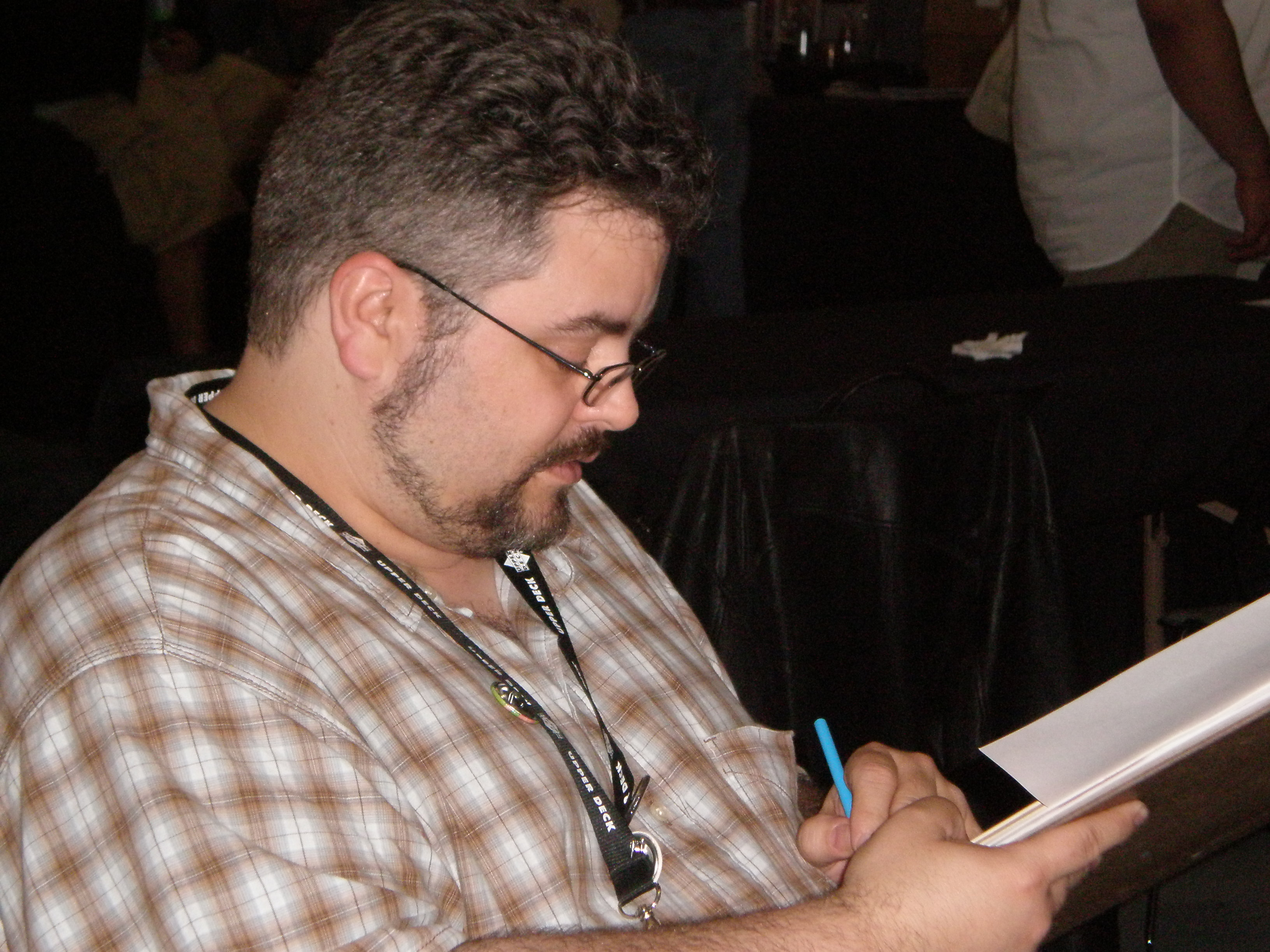 Dan Brereton at Super-Con 2009 in San Jose, California.